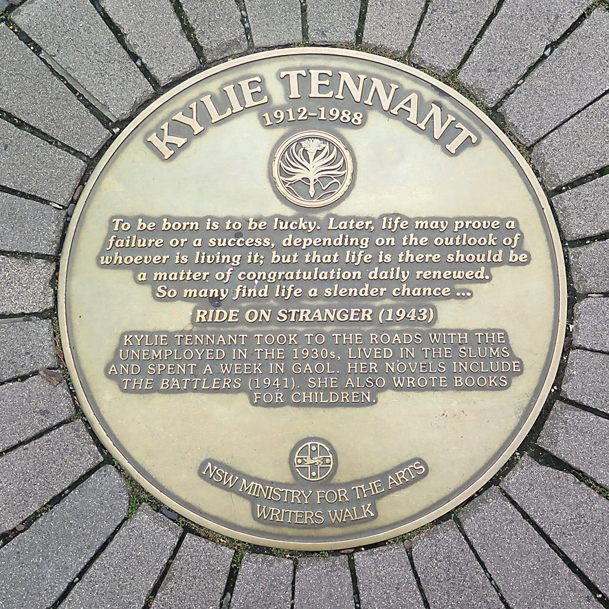 A plaque in the Sydney Writers Walk series at Circular Quay